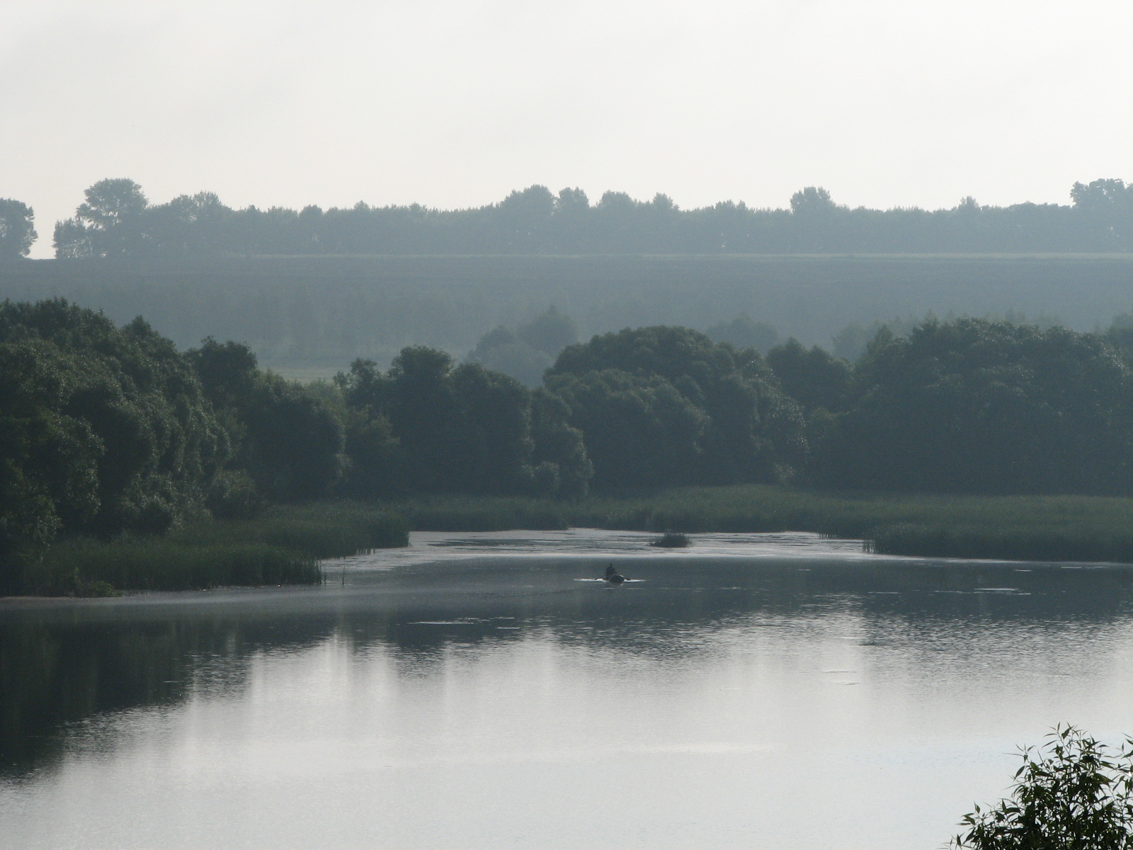 Sula River near Pechishche, Sumy Oblast, Ukraine